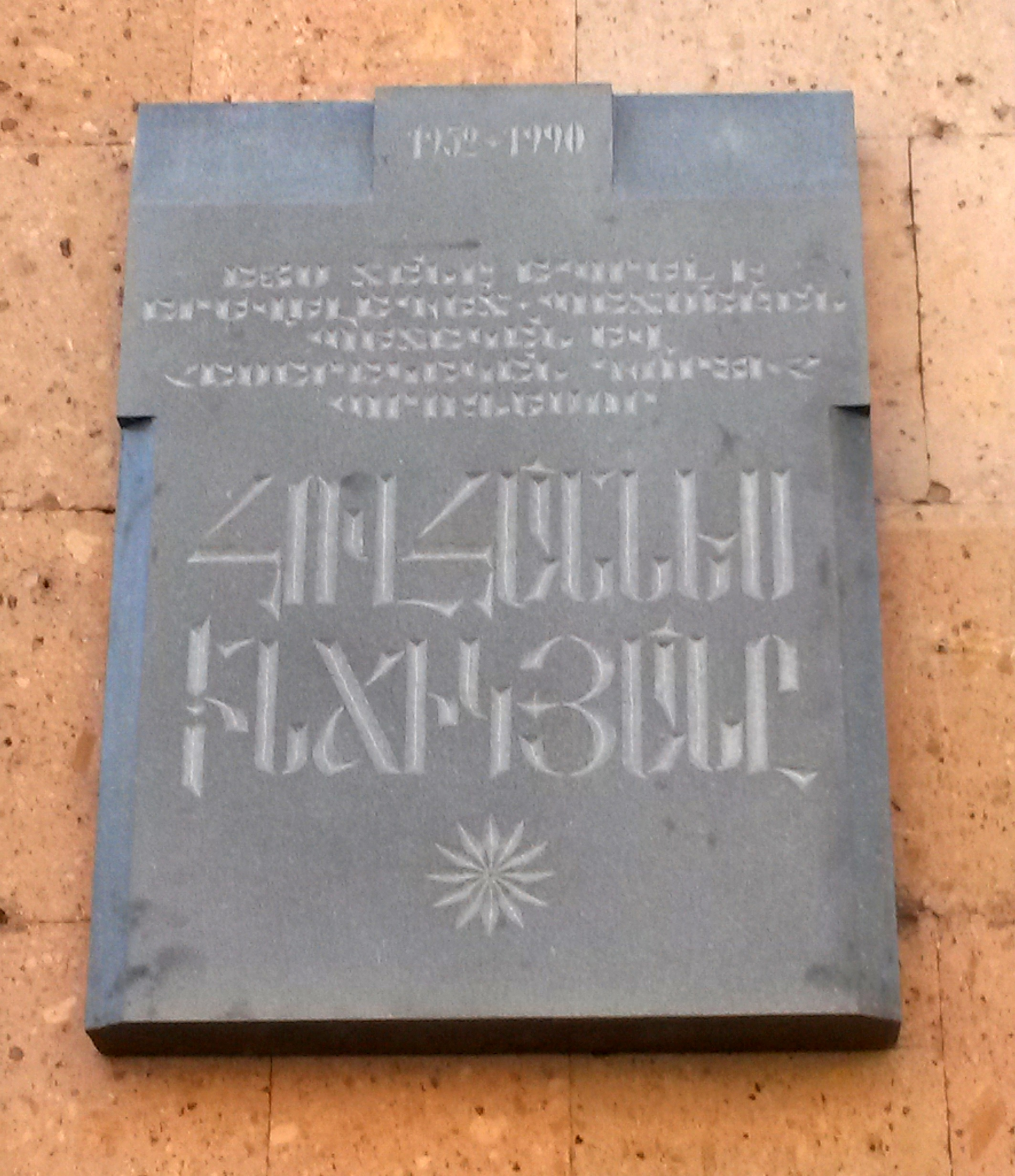 Hovhannes Inchikyan's Plaque on Toumanyan sreet, Yerevan